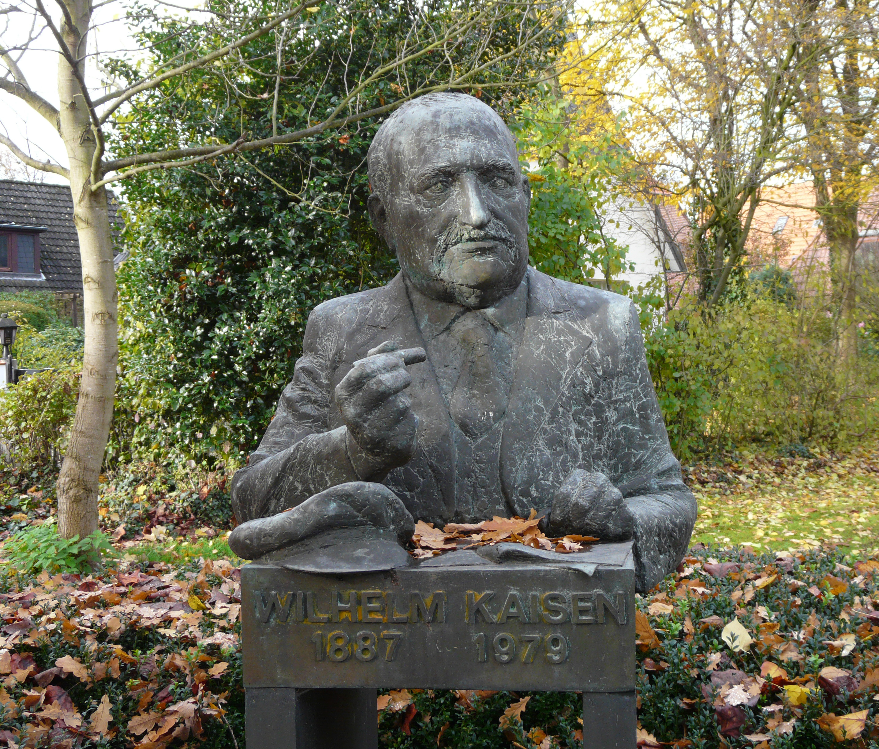 Bust of Wilhelm Kaisen by Christa Baumgärtel in Bremen-Borgfeld